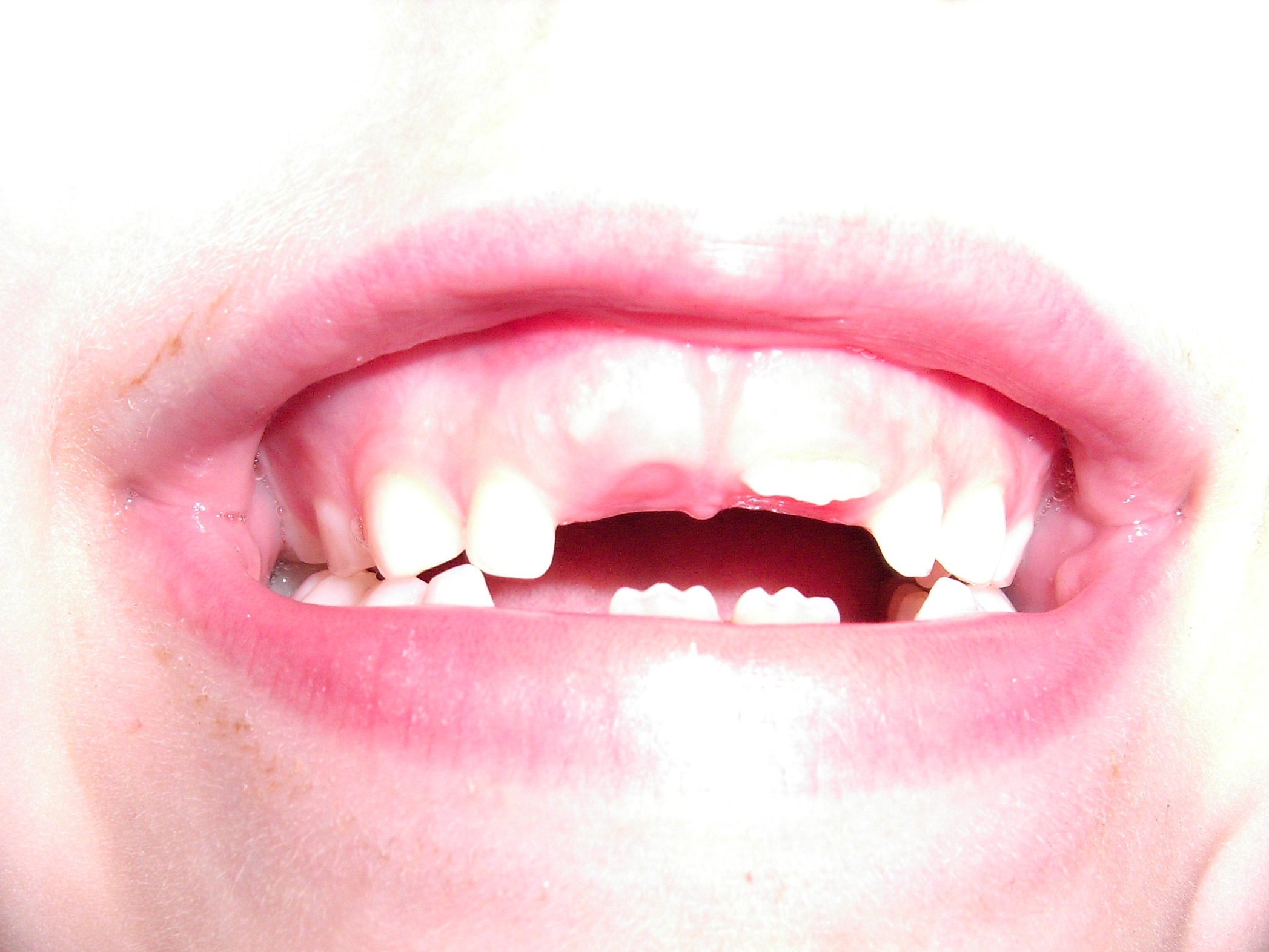 Deciduous teeths